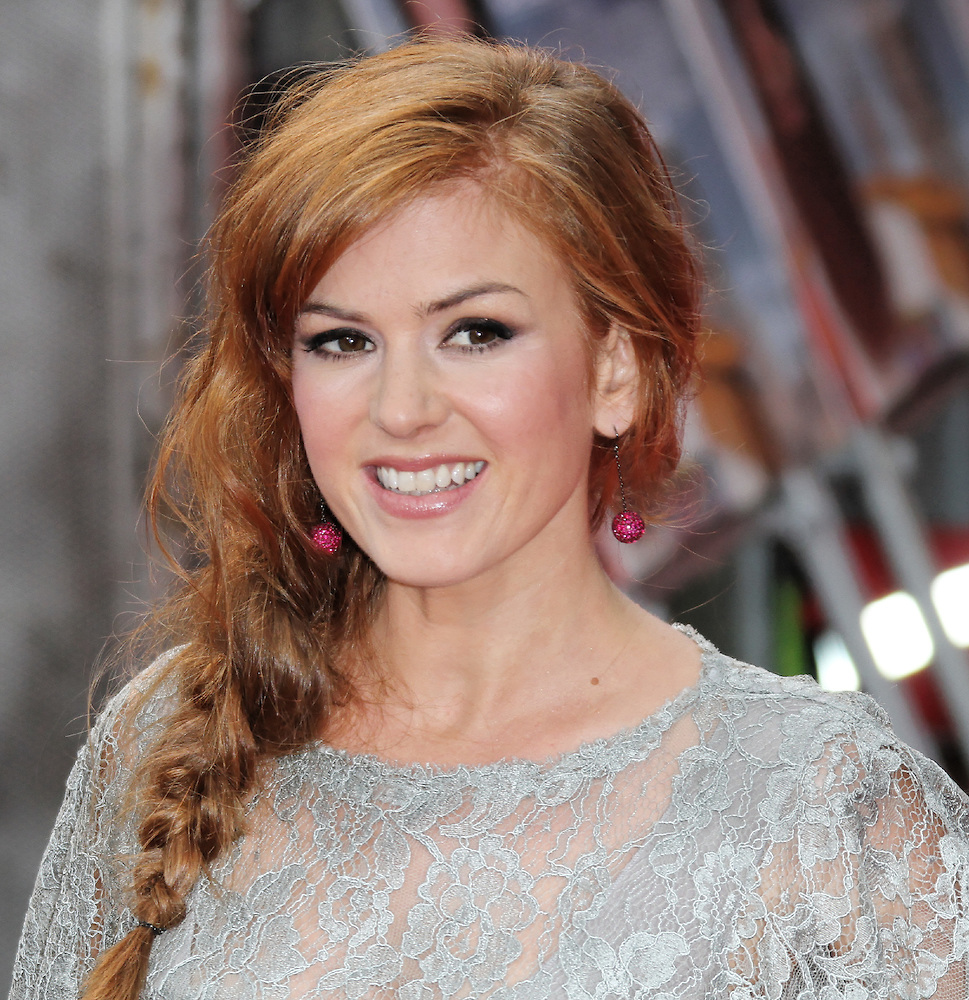 Isla Fisher attends the World Film Premiere of The Dictator at the Royal Festival Hall, Southbank Centre, London, UK, in May 2012.